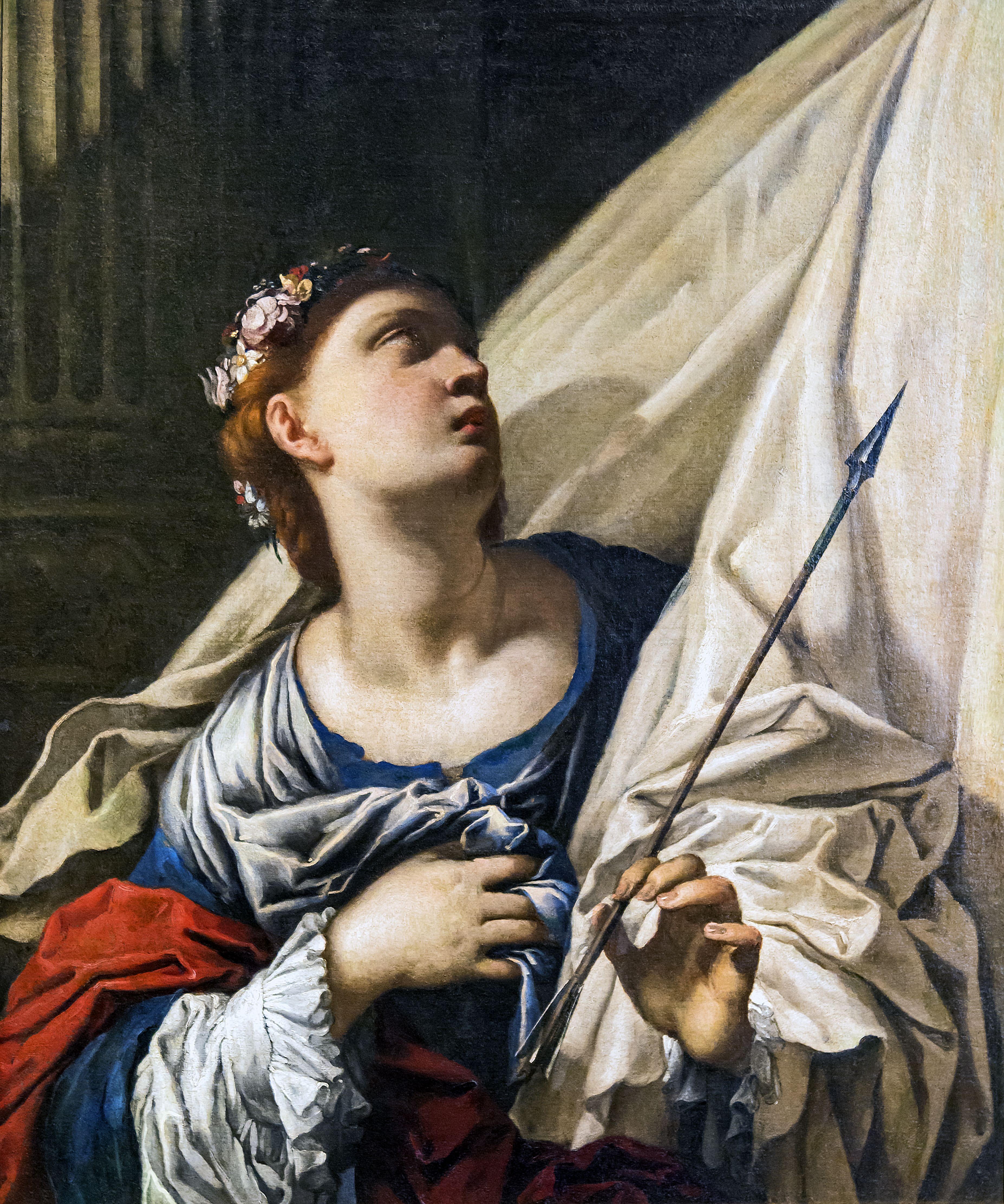 Saint Ursula by Francesco Ruschi, First half of the 17th century, Gallerie dell'Accademia in Venice. Oil on canvas. Initially in the convent of San Zanipolo. Inventory number: Cat.903